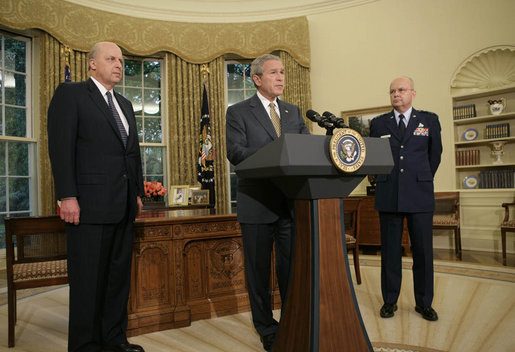 President George W. Bush announces his nomination of Gen. Michael Hayden as the next Director of the Central Intelligence Agency Monday, May 8, 2006, in the Oval Office as Ambassador John Negroponte, Director of National Intelligence, looks on. Said the President of Gen. Hayden: "He's the right man to lead the CIA at this critical moment in our nation's history."